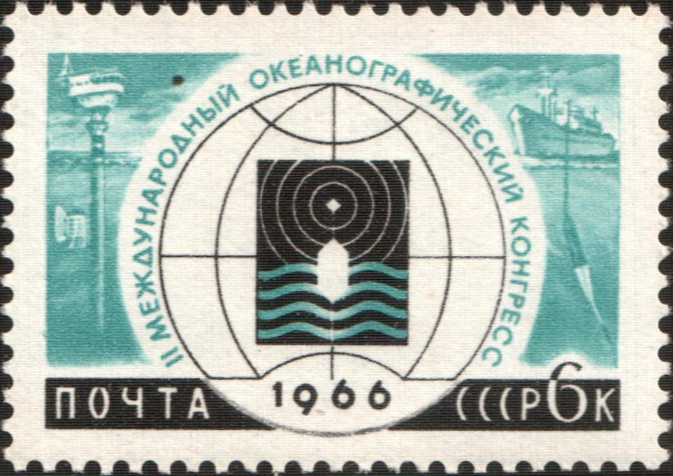 USSR stamp: 2nd International Congress of Oceanography (30.05–9.06, Moscow). Emblem: Oceanographic Instrument and Globe. Oceanographic Instrument in the High Sea and Hydrographic Ship with a Trawl. Series: International Scientific Congresses to Be Held in USSR